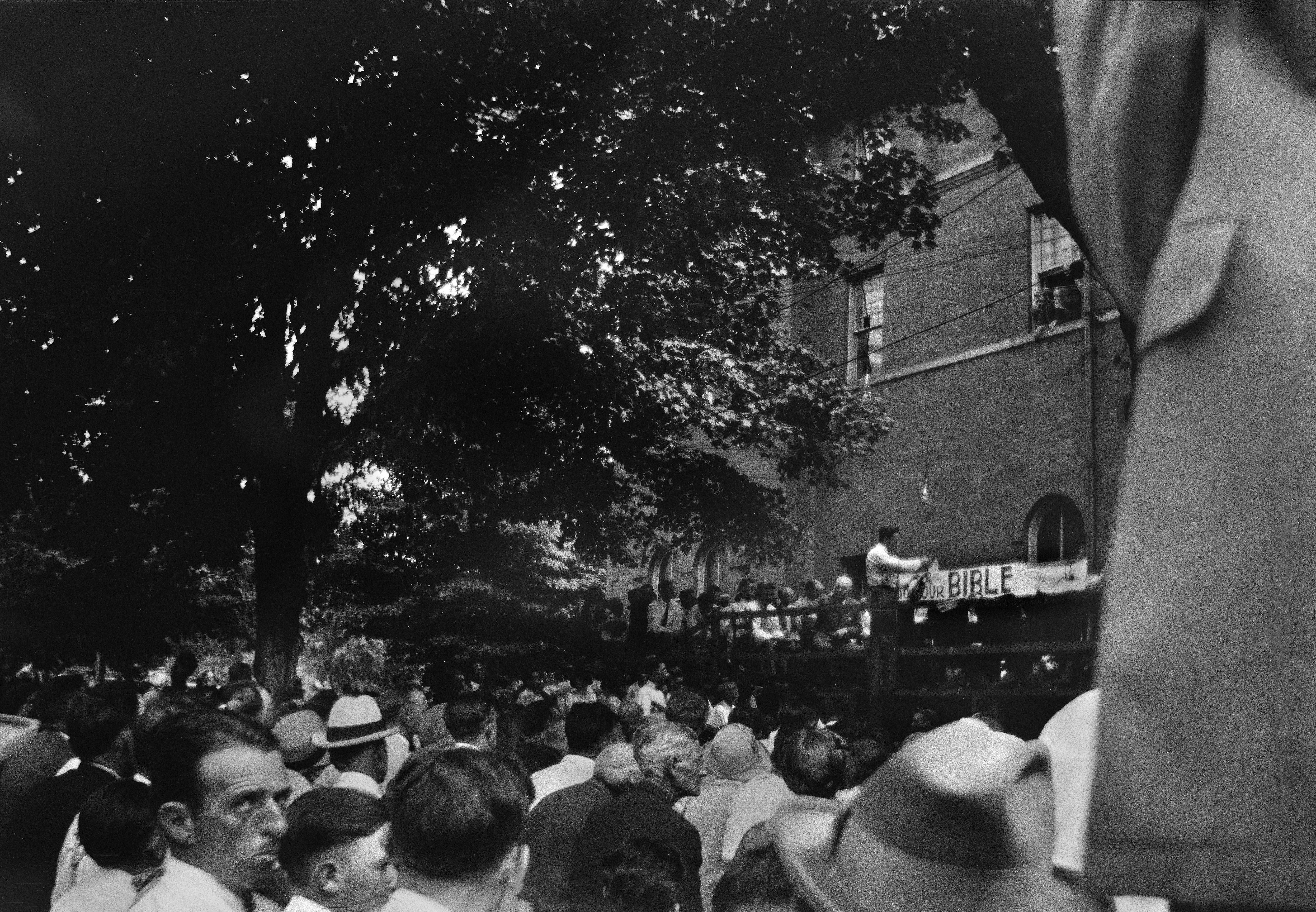 On Monday afternoon, Judge John T. Raulston declared that court would adjourn to where the temperature might be cooler and spectators accommodated more safely. When court resumed on a platform outside the courthouse, defense attorney Hays continued reading the defense experts’ sworn affidavits into the record (the judge had refused to allow them to testify in person). Visible on the courthouse wall is one of many “Read Your Bible” signs hung in Dayton throughout the trial. Attorney Dudley Field Malone can be seen behind Hays.